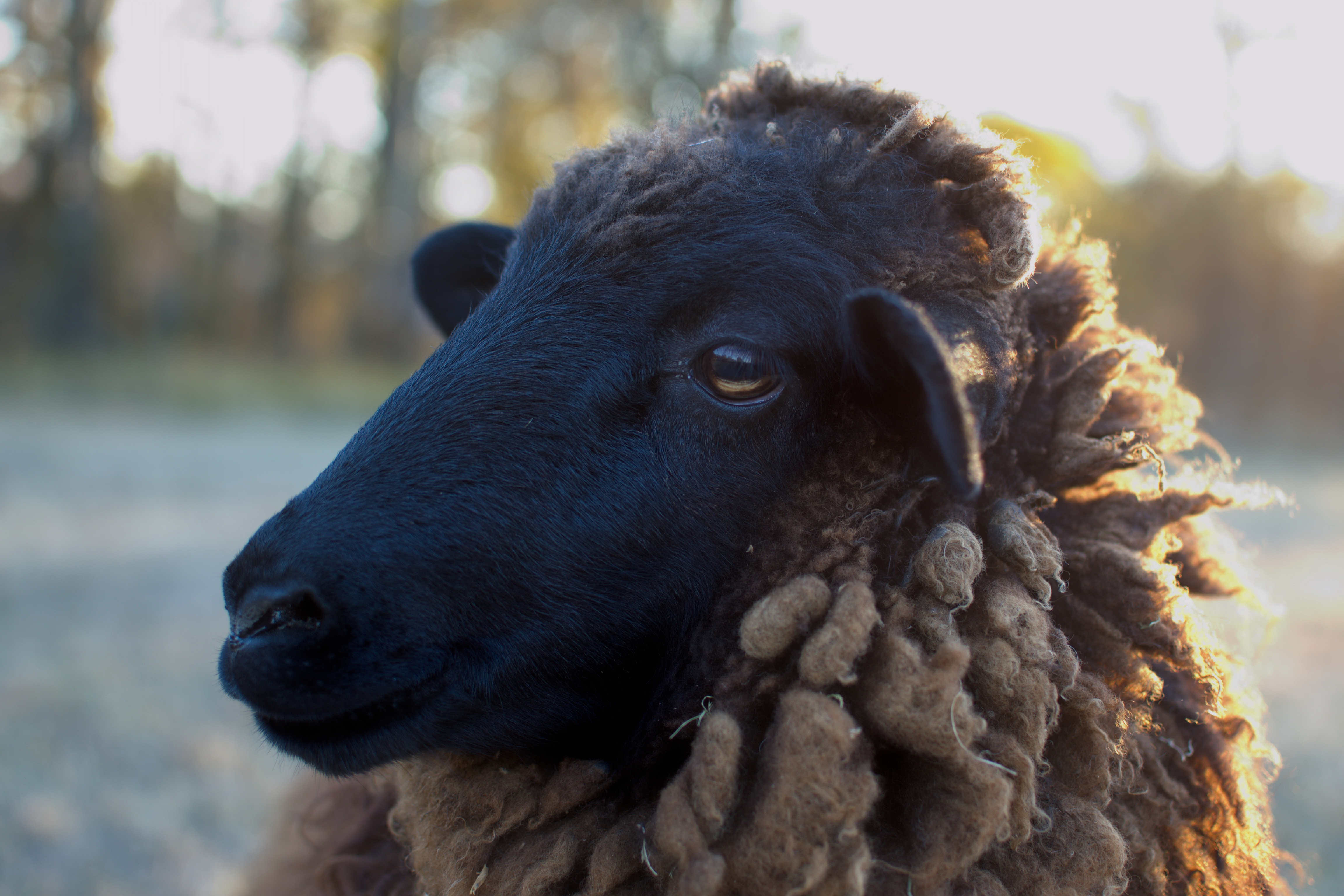 A closeup of a black sheep's head, Ploskoye, Chernihivs´ka Oblast´, Ukraine.